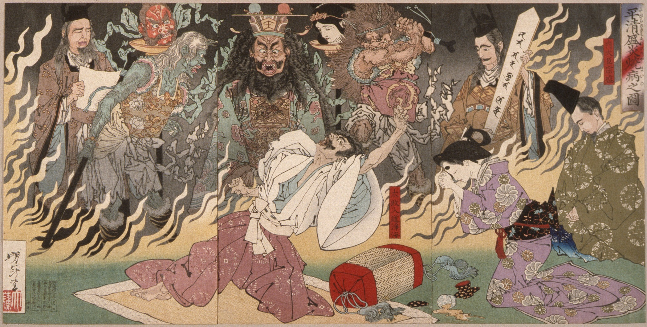 Japan, 1883 Alternate Title: Taira no Kiyomori Hi no Yamai no zu Prints; woodcuts Triptych: color woodblock prints 13 13/16 x 27 5/16 in. (35.0 x 69.3 cm) Herbert R. Cole Collection (M.84.31.77a-c) Japanese Art